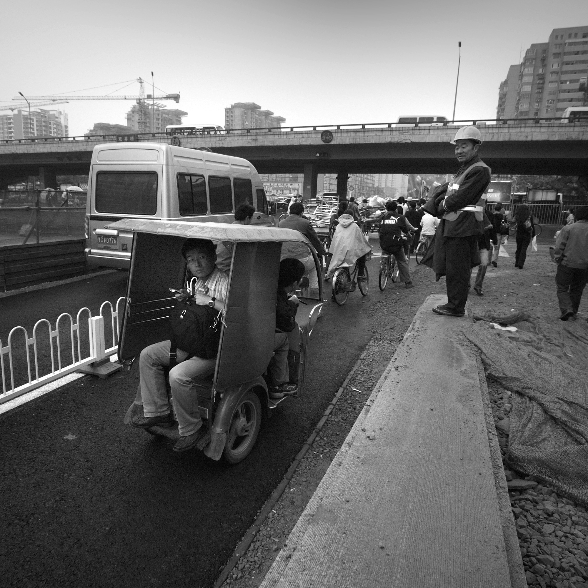 A man is using kind of motorbike as a taxi. Beijing, China.